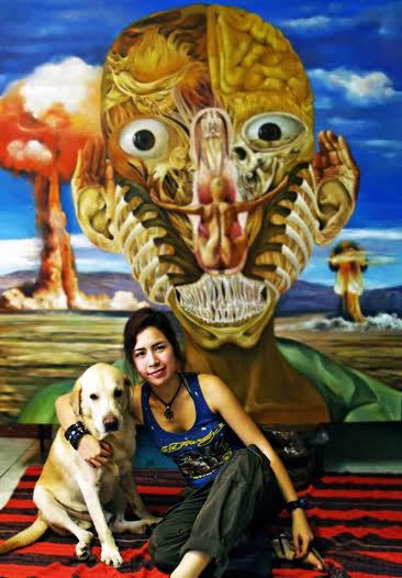 Camille Dela Rosa with her pet Sendo, and one of her major works, "Those who have ears hear...Those who have eyes see""